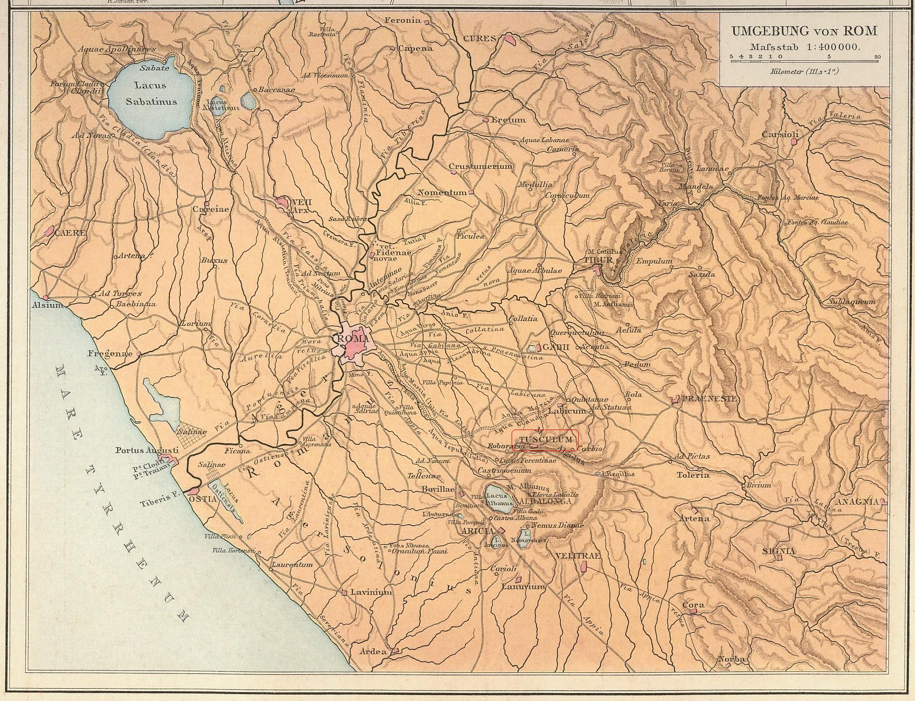 Based on File:Rom_Umgebung.jpg, I highlighted Tusculum for reference in the article